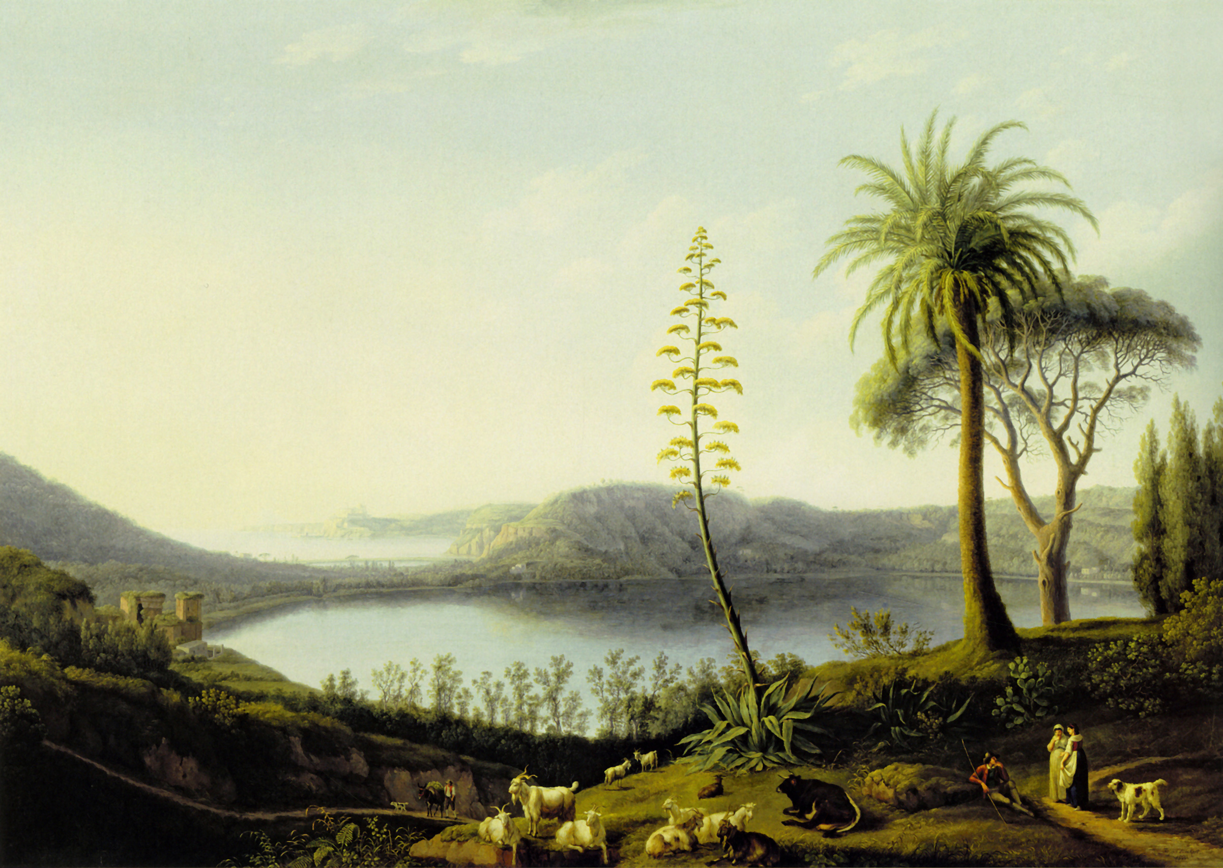 Jakob Philipp Hackert, View of Lake of Averno (1800), oil on canvas, 116.8 x 167.7 cm, Attingham Park, Shrewsbury, Shropshire, The Berwick Collection, The National Trust.